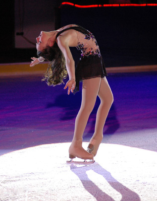 Sarah Brannen, with permission of photographer